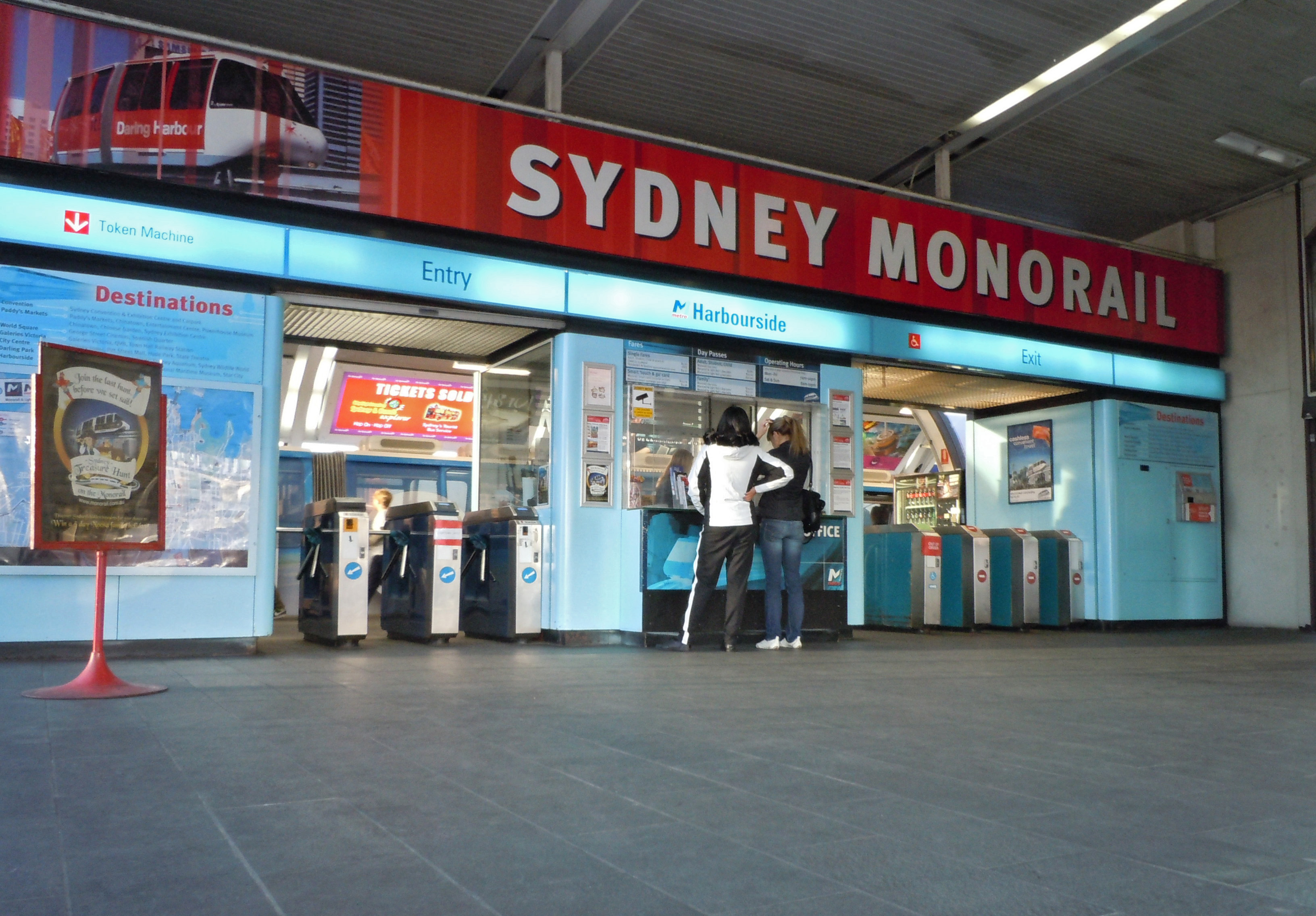 Entrance to the Harbourside monorail station.